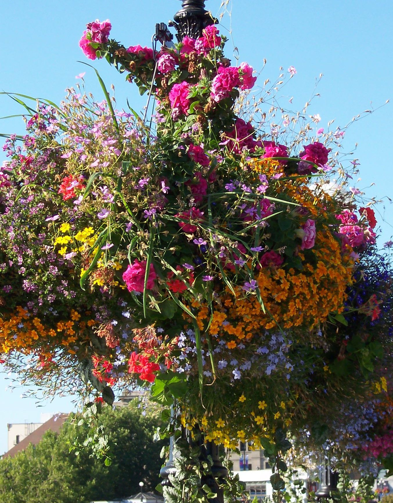 A hanging flower basket on the street in Victoria, British Columbia.